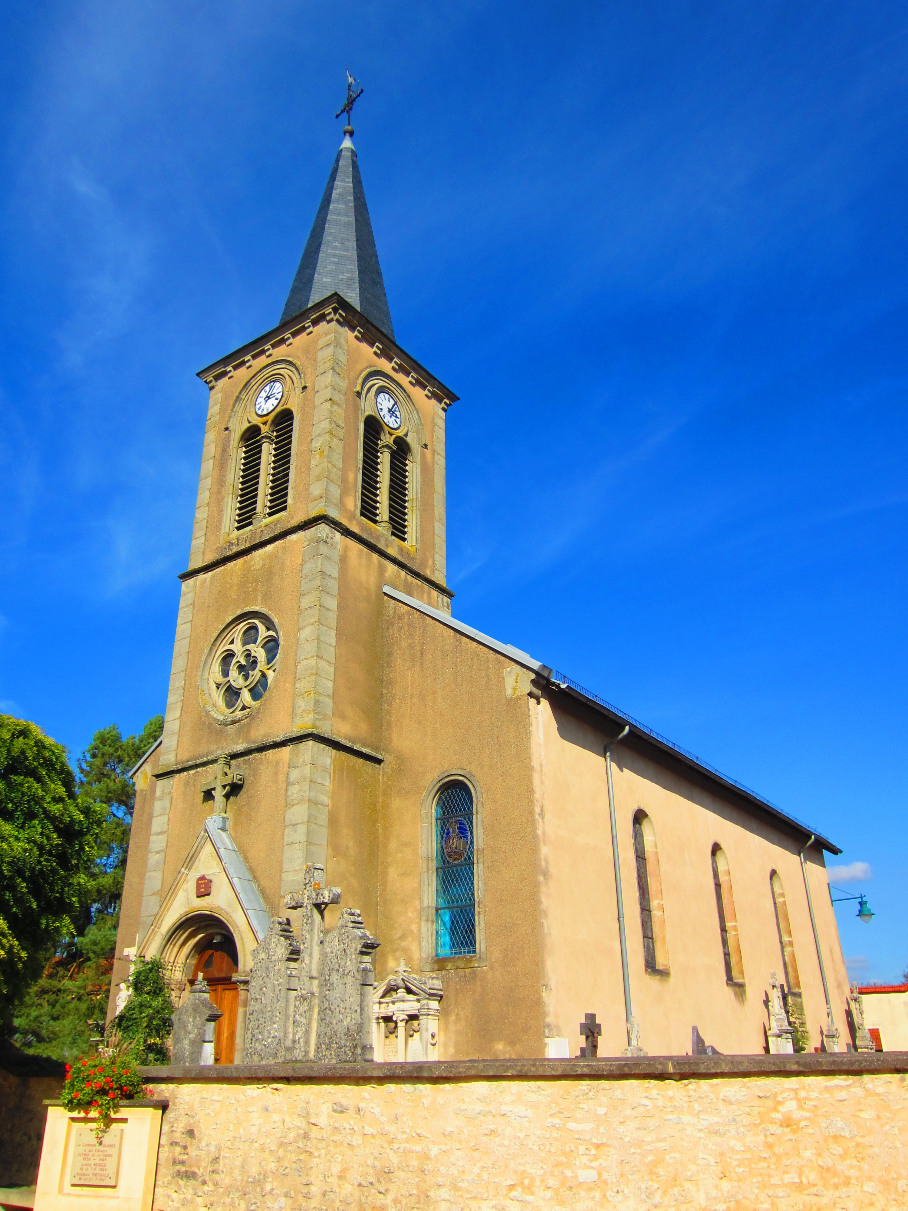 Eblange church